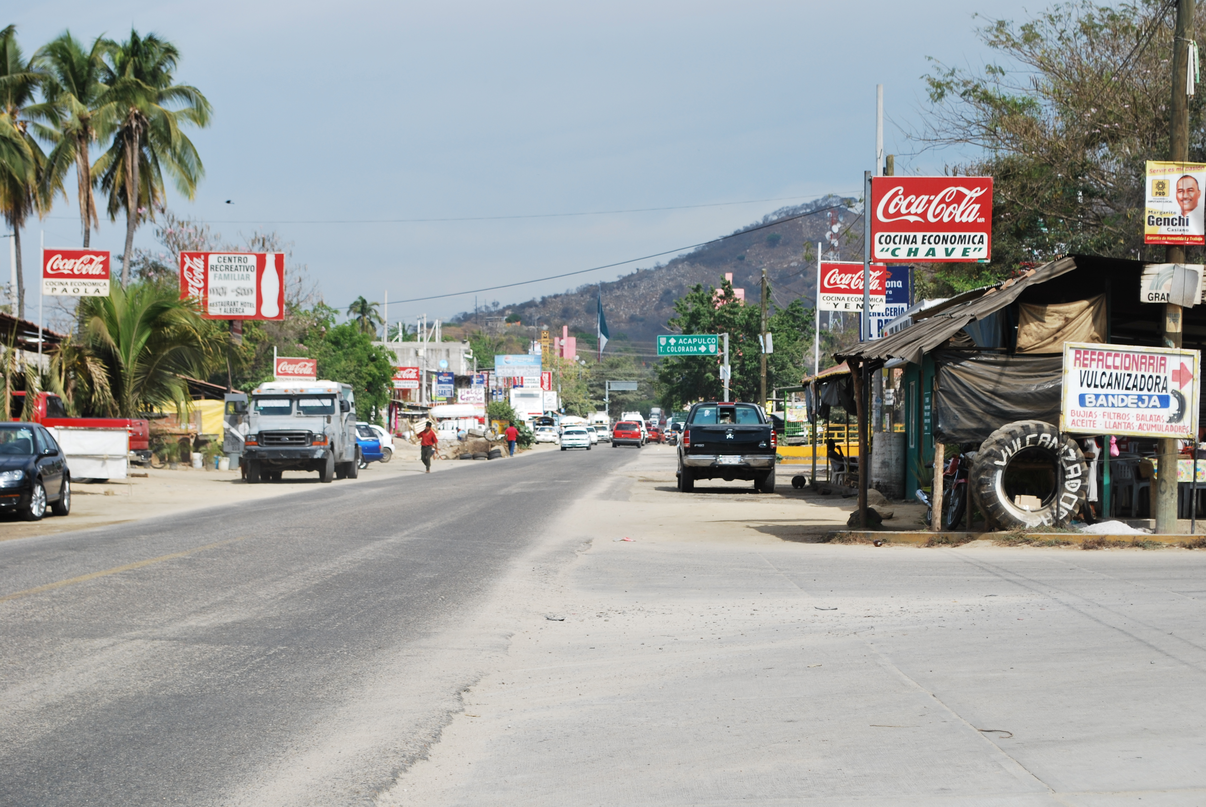 View of Highway 200 in Cruz Grande, Guerrero, Mexico